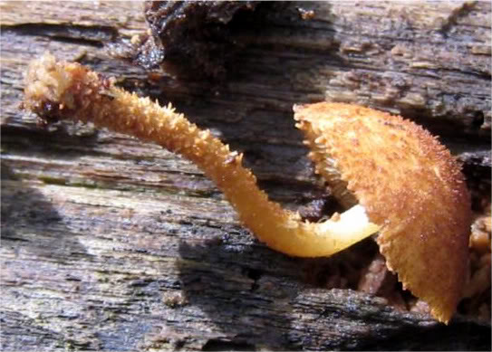 Flammulaster erinaceella